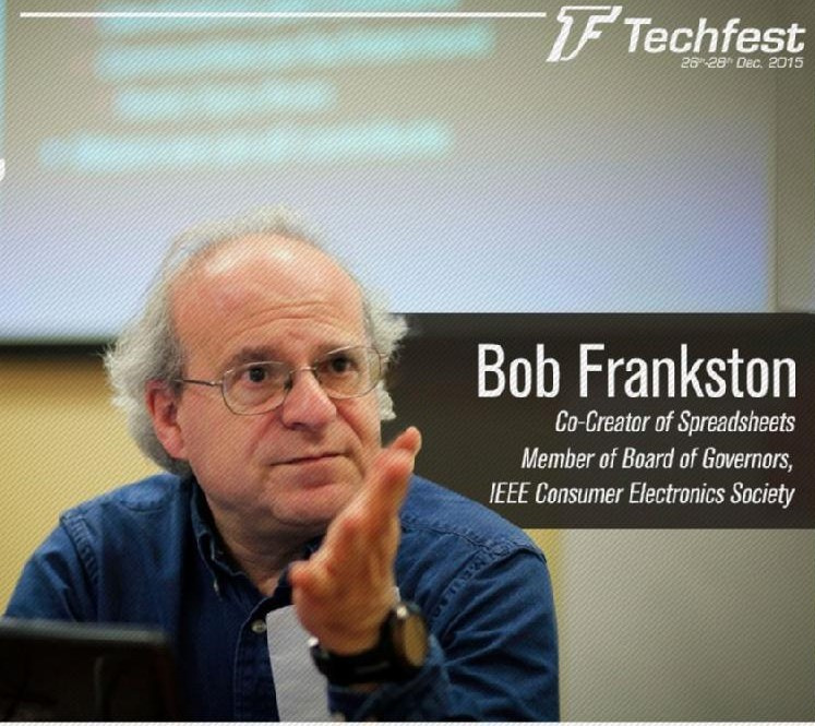 Bob Franston at Summit